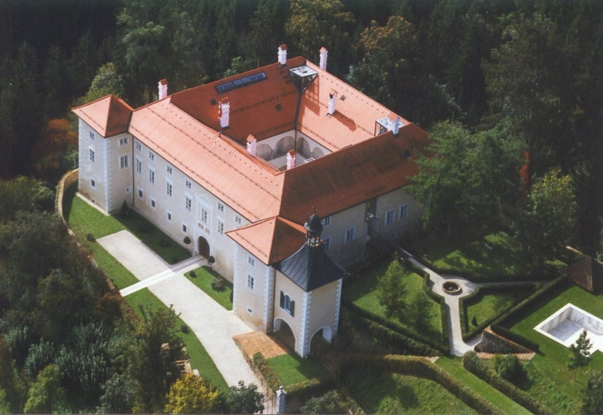 Aerial photograph of the Neuhaus Castle in Carinthia.